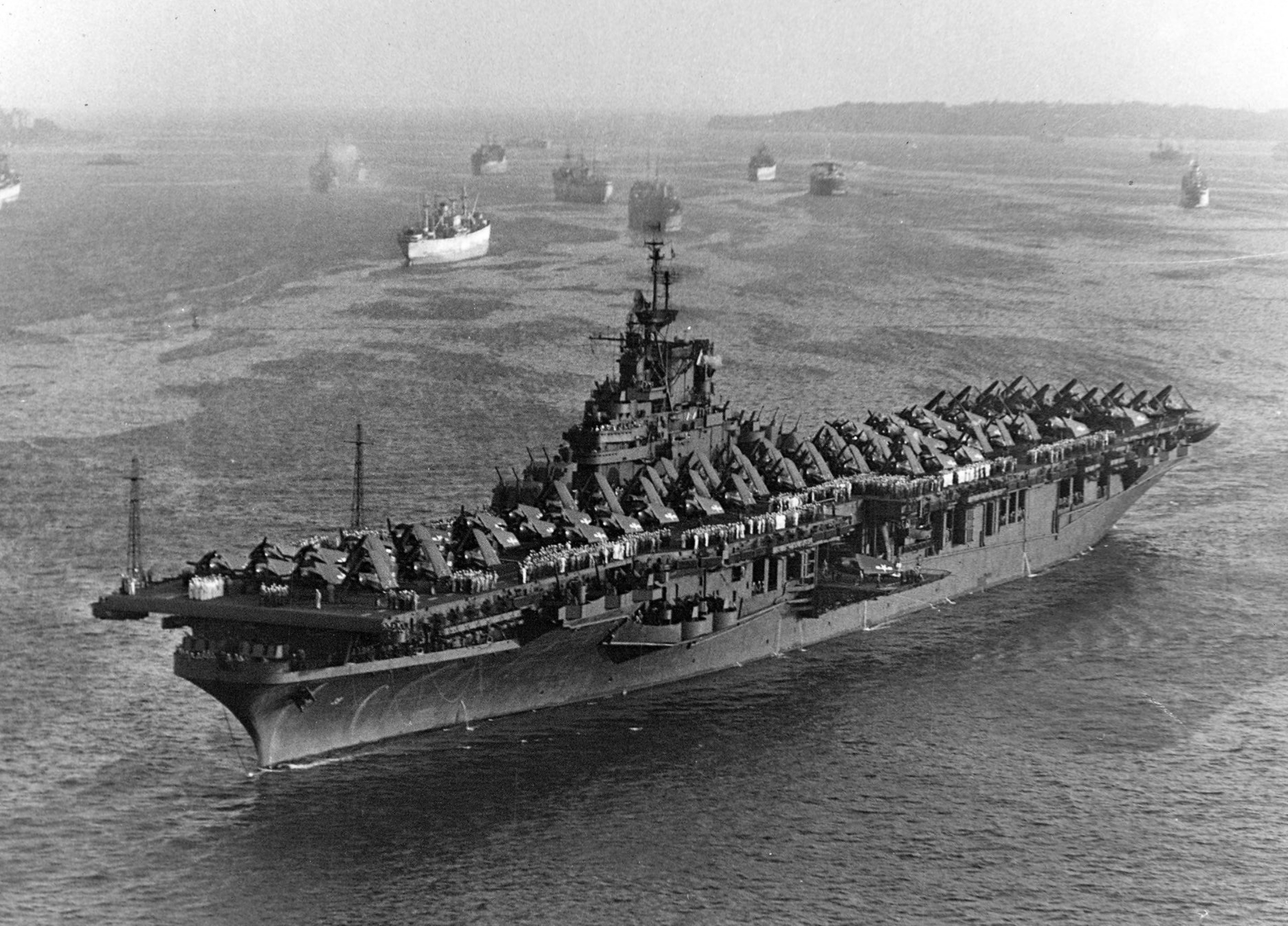 The U.S. Navy aircraft carrier USS Lake Champlain (CV-39) at anchor at Norfolk, Virginia (USA), with aircraft of Carrier Air Group 150 (CVG-150) on board.